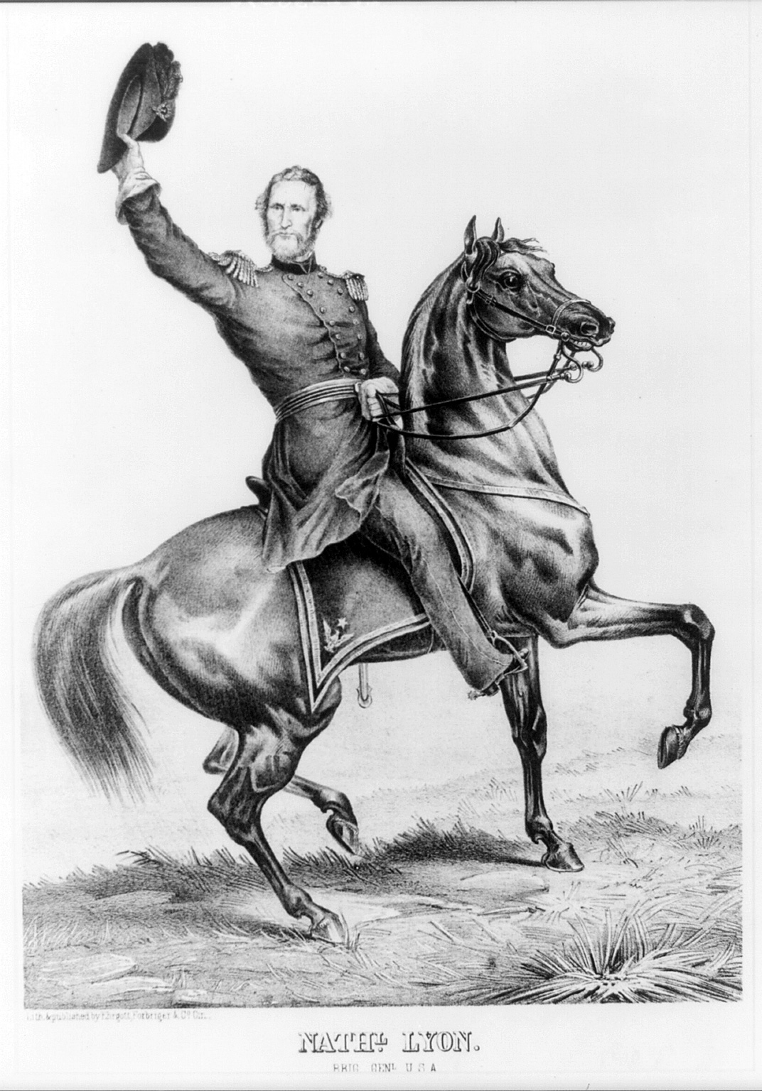 Nathl. Lyon, Brig. Genl., U.S.A. Killed at the battle of Springfield, Mo., Aug. 10, 1861.